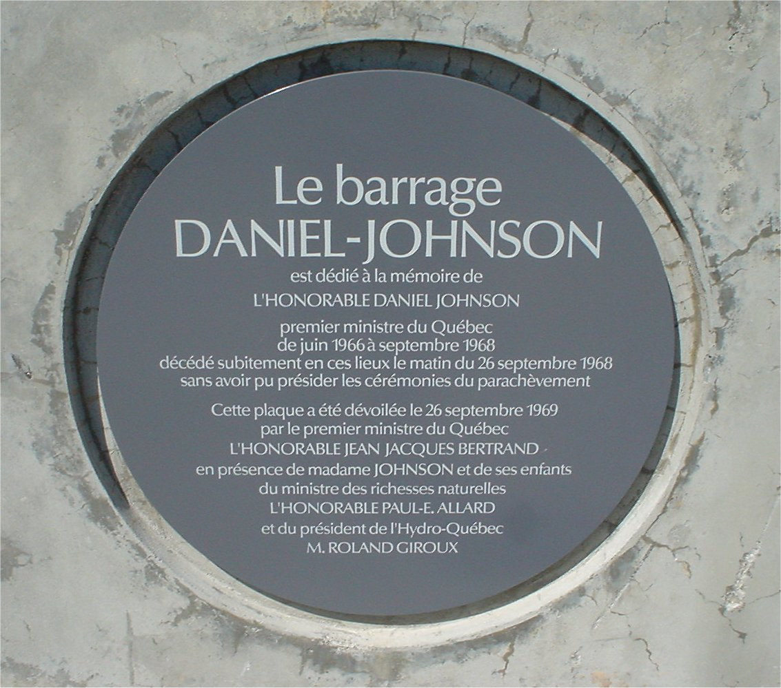 Plaque commemorating the dedication of the Daniel Johnson Dam to the memory of Quebec Premier Daniel Johnson, Sr., who died there on September 26, 1968, a few hours before the inauguration.